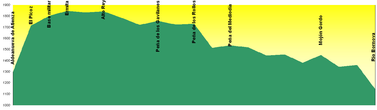 Sketch of the South face of Alto Rey mountain (Guadalajara, Spain)